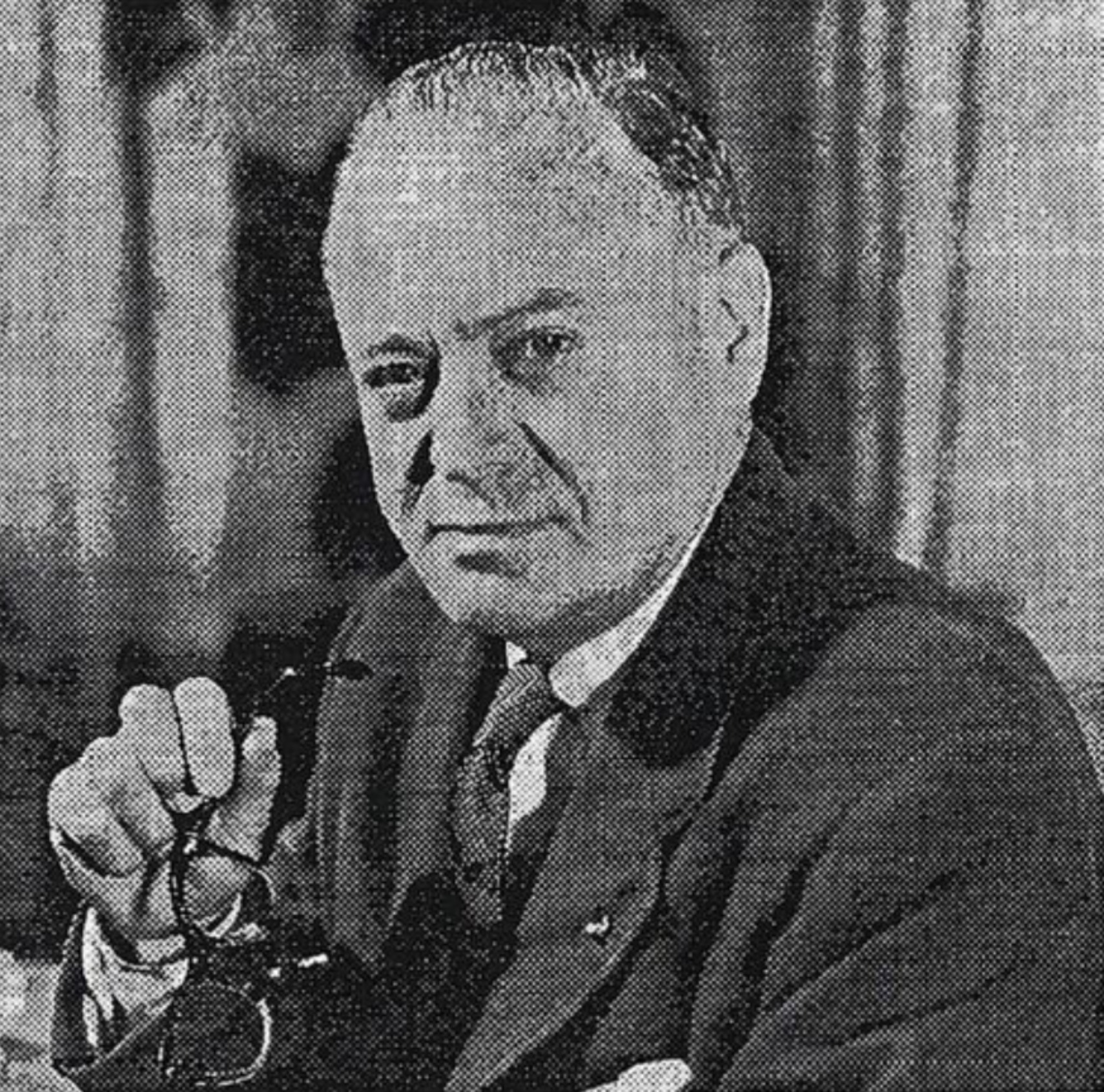 U.S. Senator Styles Bridges (R-NH)